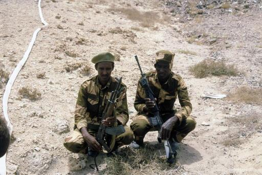 Two Somali soldiers pose for a photo during Exercise EASTERN WIND '83, the amphibious landing phase of Exercise BRIGHT STAR '83. The soldier on the right has an M16A1 rifle he borrowed from a US Marine, and the soldier on the left has an AKM 7.62 mm assault rifle.